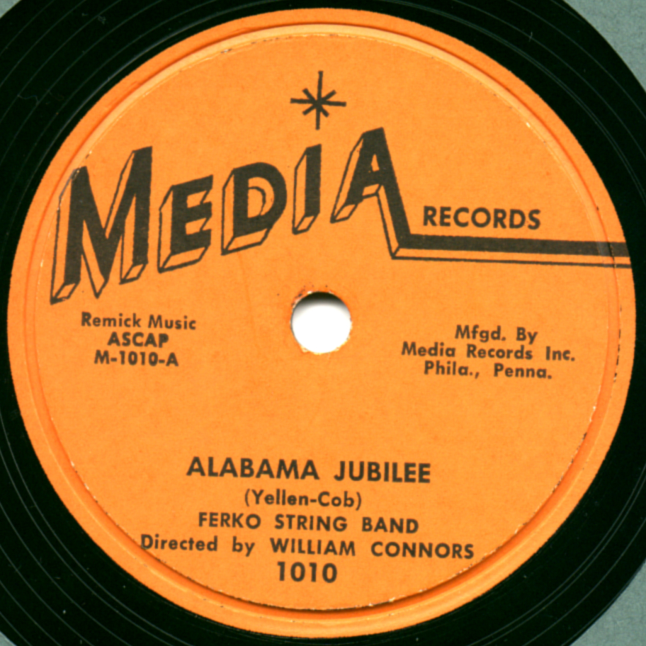 "Alabama Jubilee" 78rpm label, performed by Ferko String Band on Media 1010. Picture taken of shellac disc on my own collection.